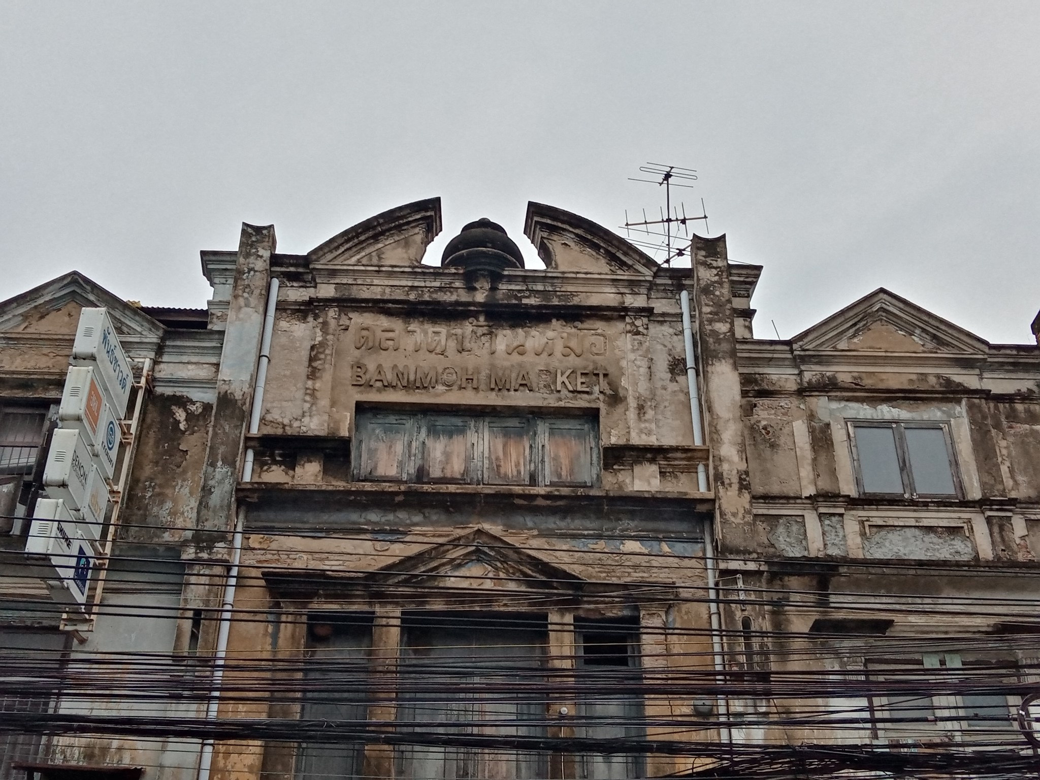 Pot sculpture on the gable of the entrance gate Ban Mo Market